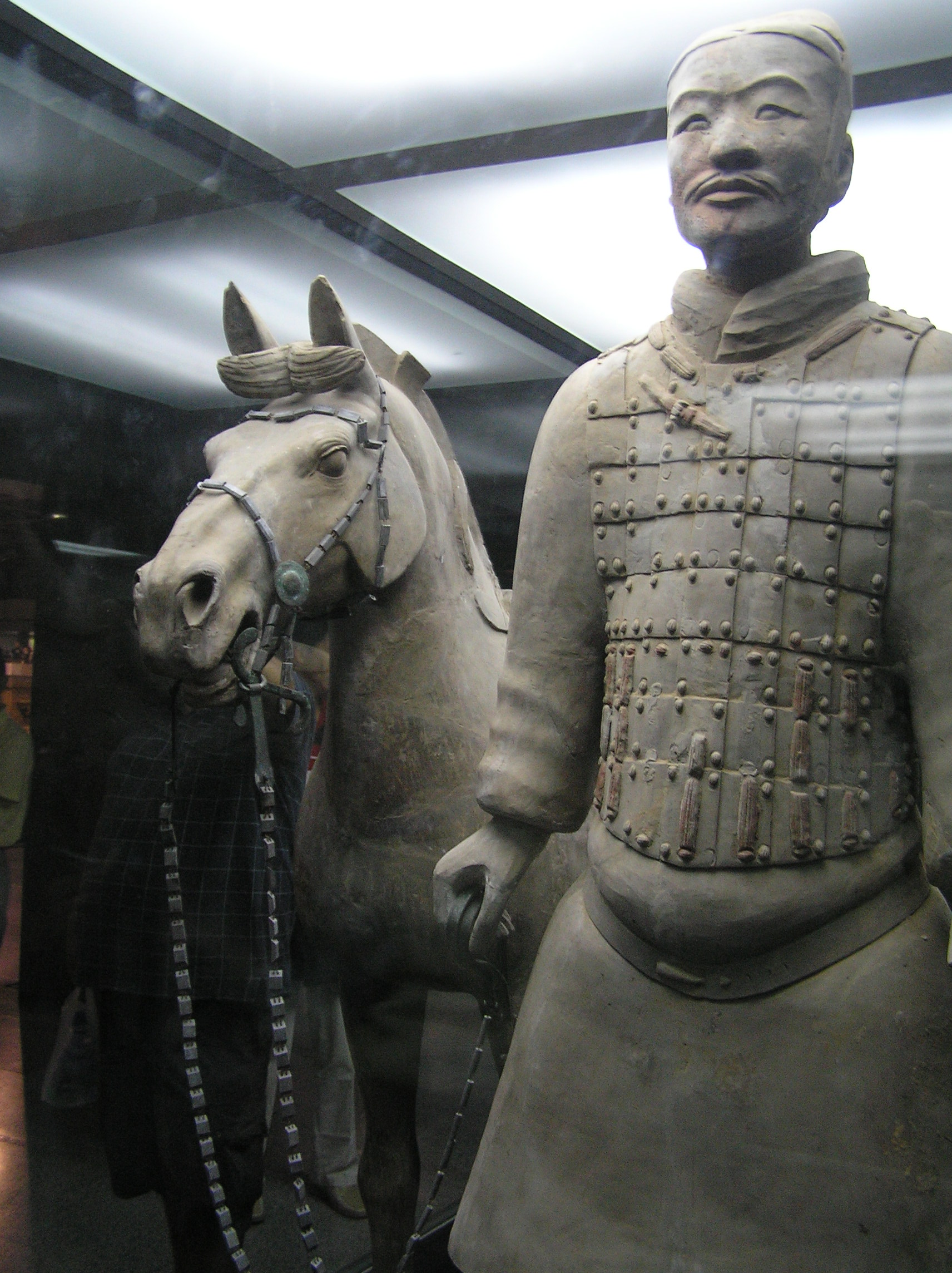 This is a picture taken in summer 2005 by me. It is of a terracotta soldier and his terracotta horse.